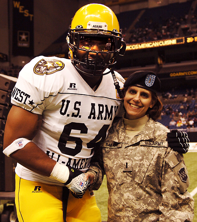 Minnesota Vikings DE Everson Griffen during the 2007 Army Bowl.